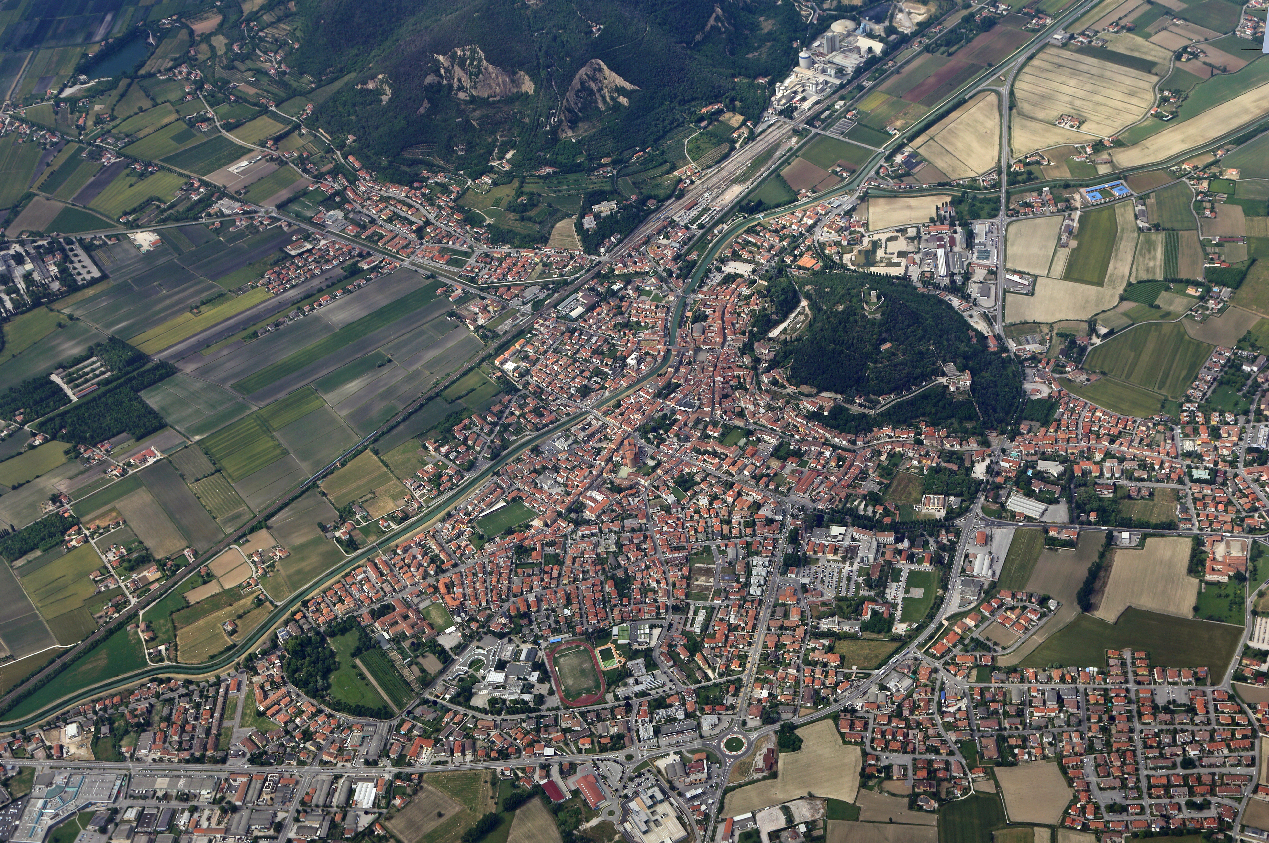 Monselice (province of Padua, Italy): aerial photograph of the town